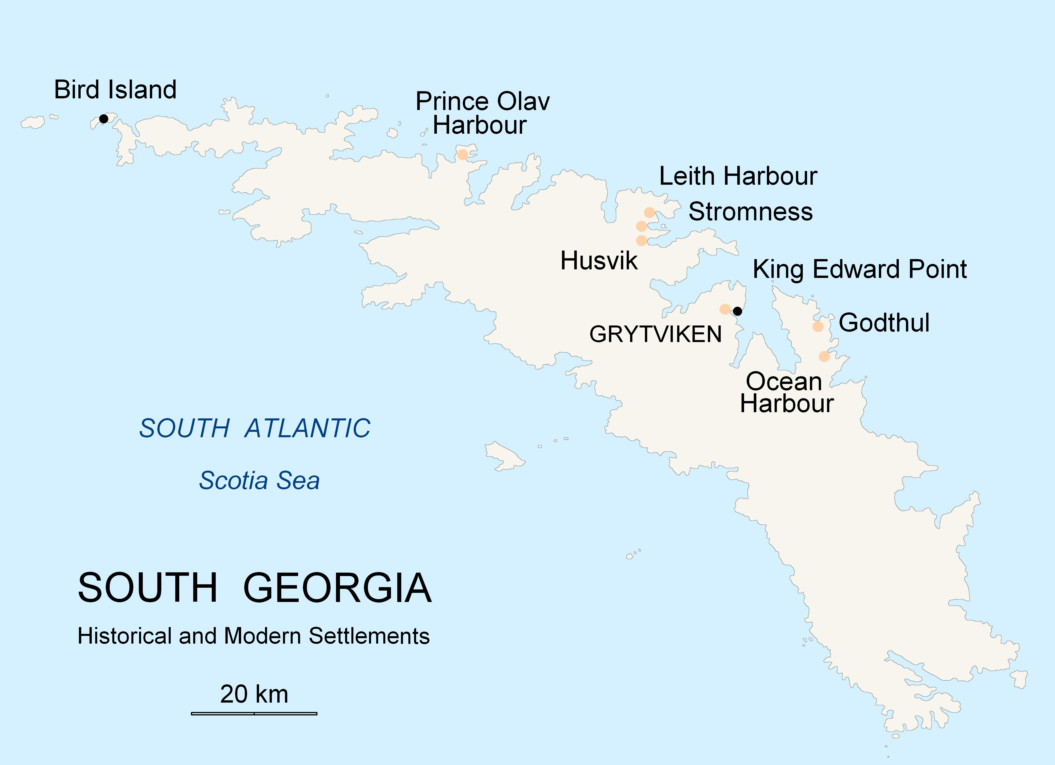 Map of South Georgia Island (Settlements) published by the author Apcbg.